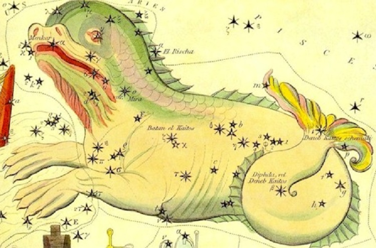 Drawing of Constellation Cetus, the Whale or Sea Monster by Samuel Leigh, 1824